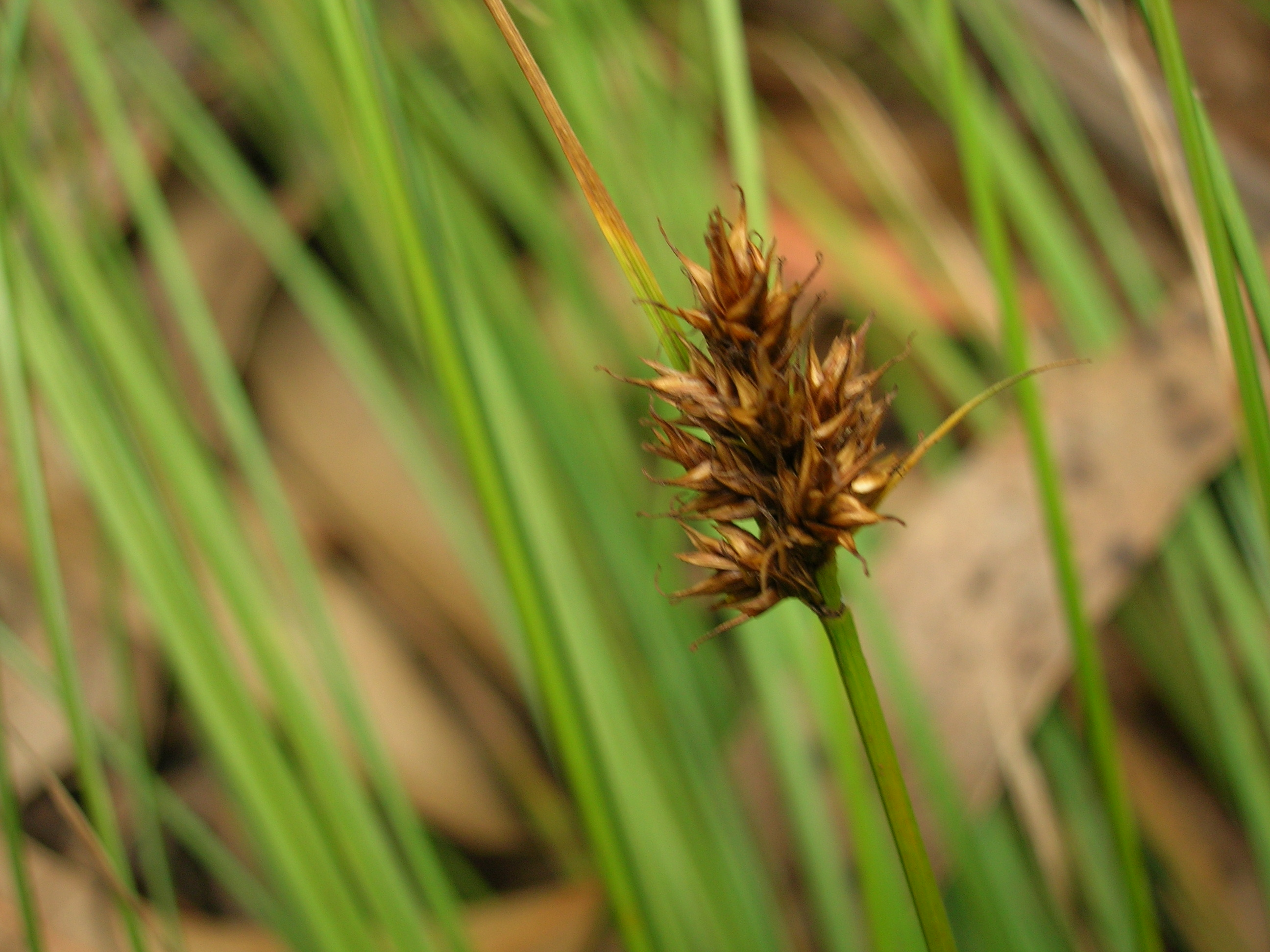 Carex macloviana subsp. subfusca (seeds). Location: Maui, Pohakuokala Gulch